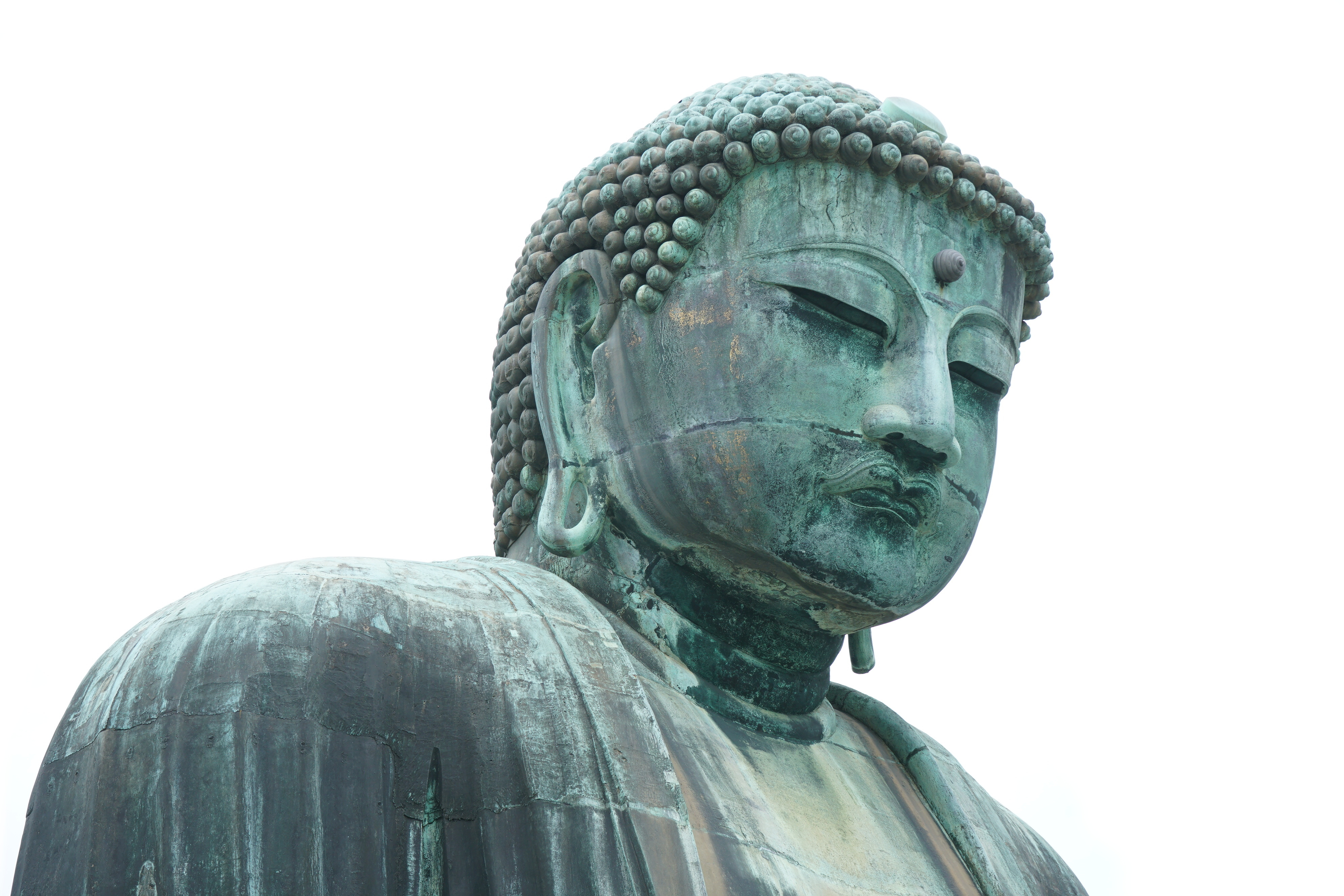 The Great Buddha of Kamakura. Kōtoku-in, Japan.